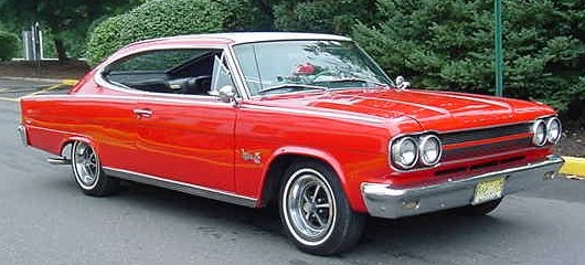 1965 Rambler Marlin (by American Motors Corporation - AMC) two-door hardtop fastback. Right front side view. Picture taken at the AMCRC car show that was held in Somerset, New Jersey held in Somerset, New Jersey, during August 8 and 9, 2003.